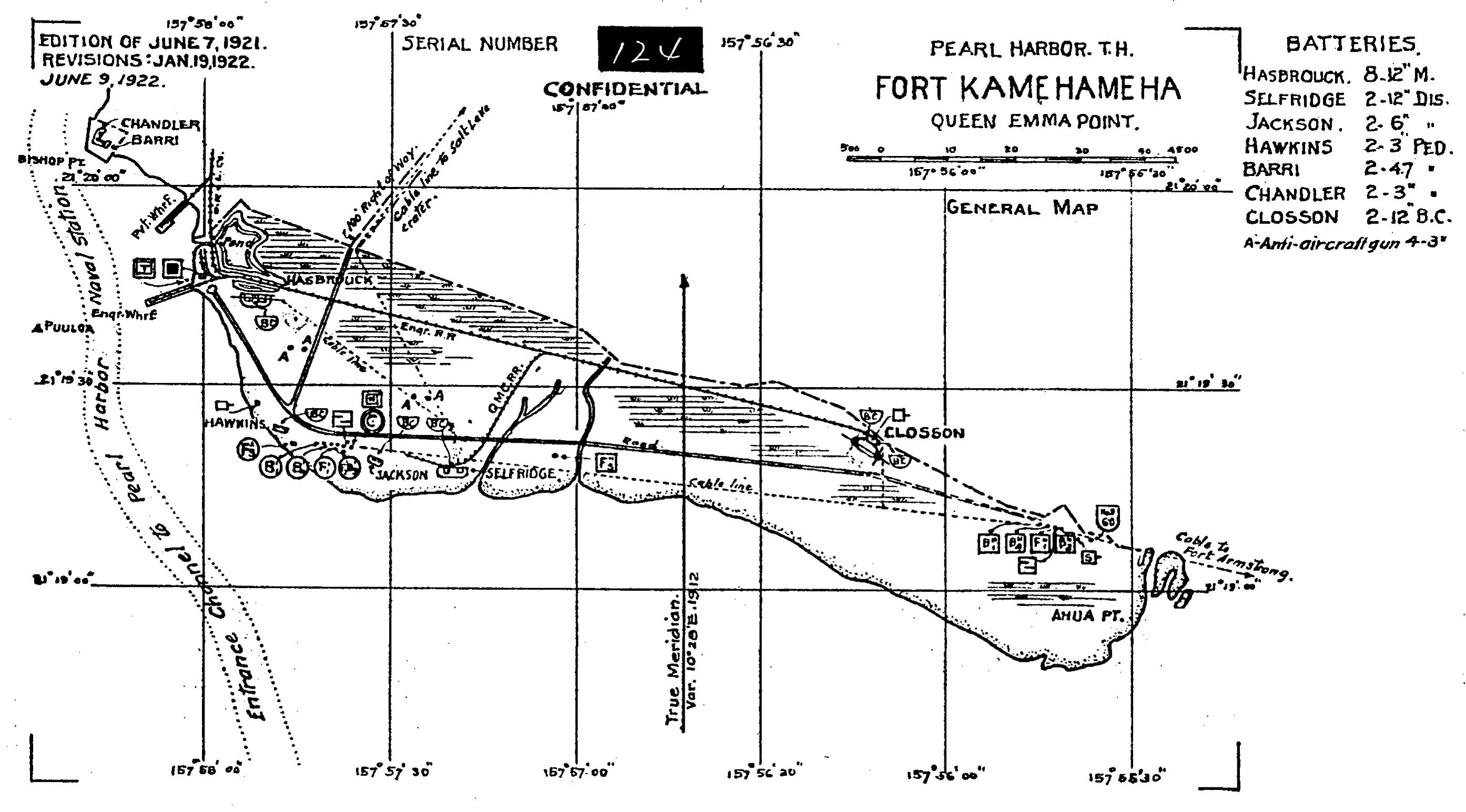 The coastal defenses of Pearl Harbor, constructed between World War I and World War II were called "Fort Kamehameha". The large guns were useless in the attack of 1941, although one "Zero" was shot down by anti-aircraft guns. It is now part of Hickham Air Force base.